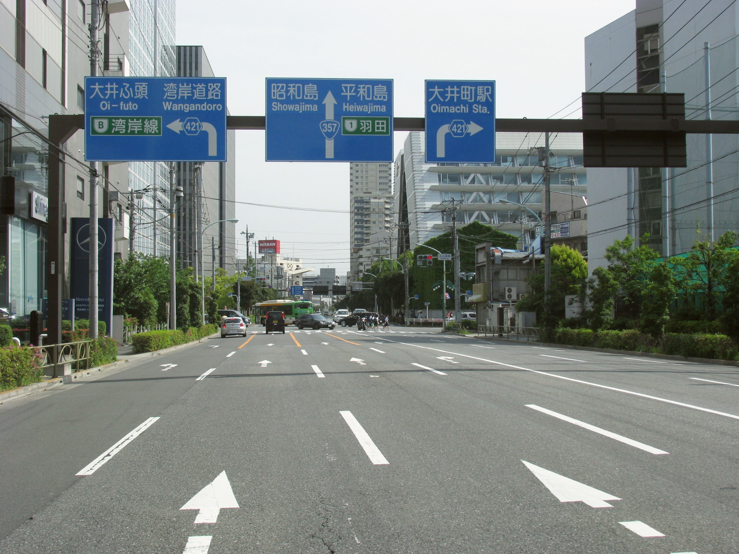 The Japan National Route 357. This location is Higashi-Shinagawa in Shinagawa, Tokyo, Japan.